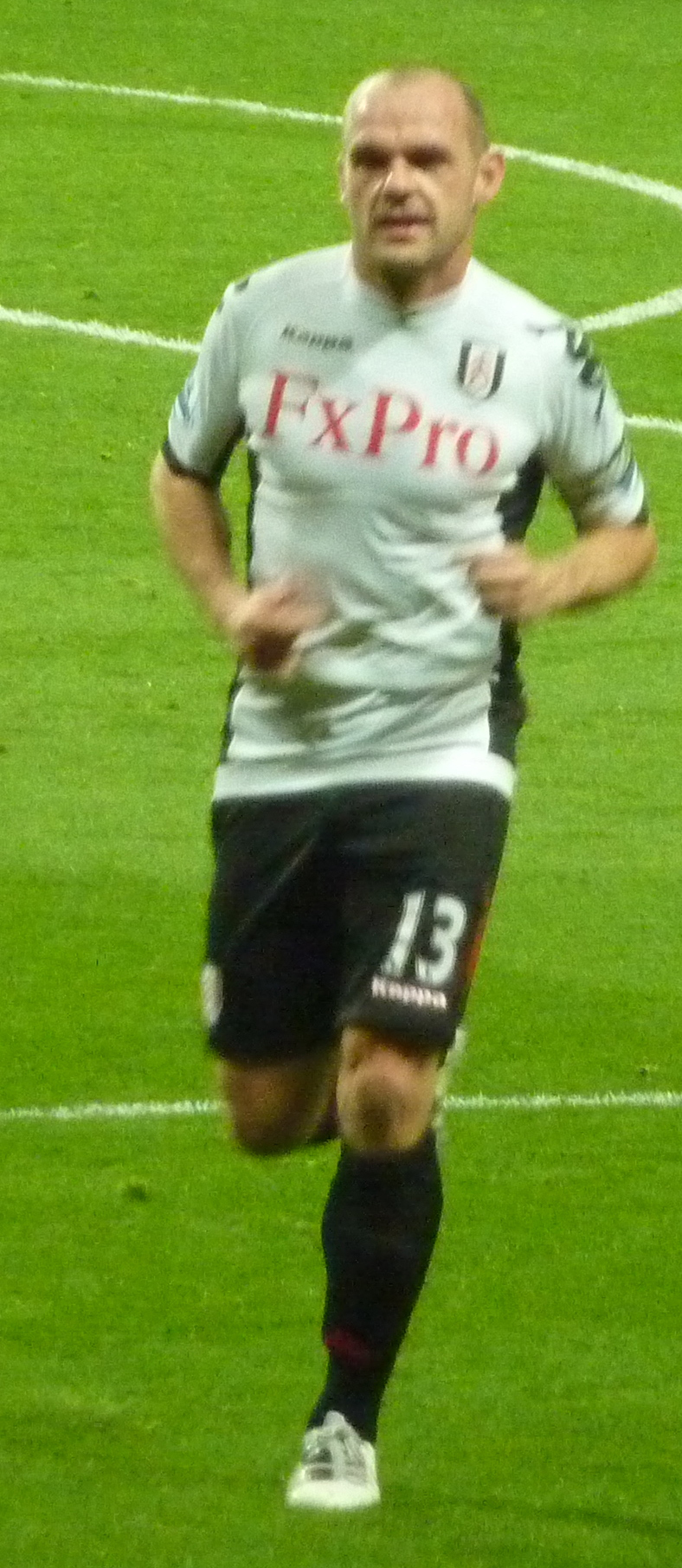 Danny Murphy playing for Fulham FC.